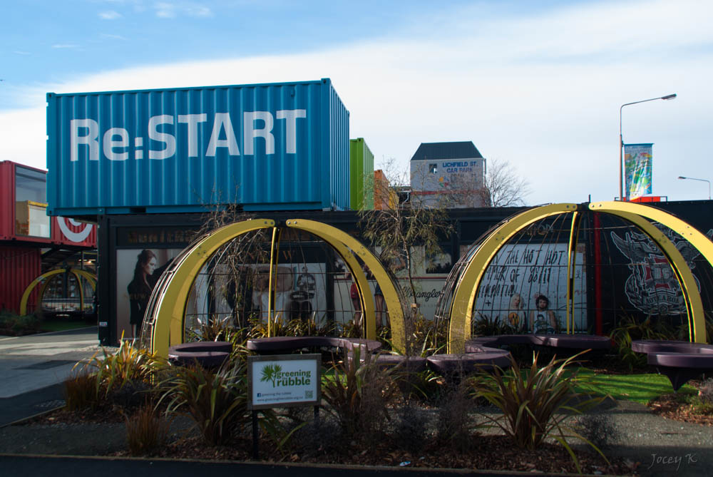 The Re: Start mall has moved On a walk around the city to catch up on events happening July 4, 2014 Christchurch New Zealand.